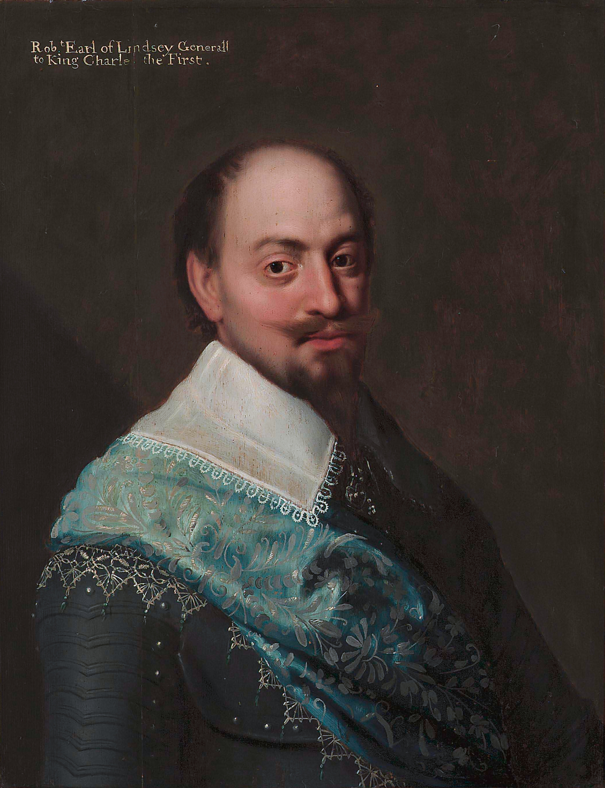 Robert Bertie, 1st Earl of Lindsey (1582-1642), bust-length, in armour, with a lace-trimmed collar and silver embroidered blue sash oil on panel 70 x 55.2 cm inscribed t.l.: Rob.t Earl of Lindsey Generall to King Charles the First.